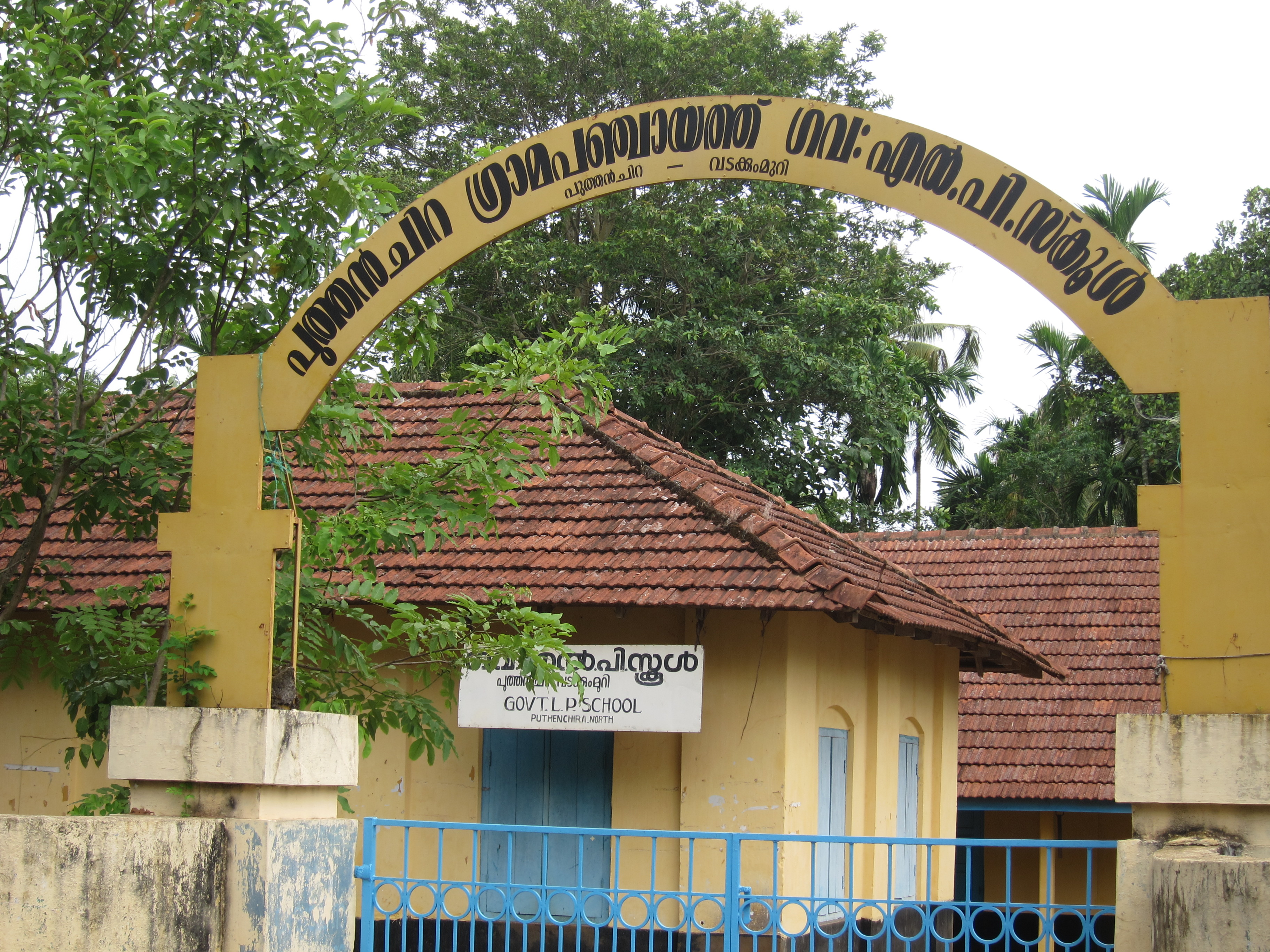 Puthenchira Govt. L.P School, Mala Educational Sub-District, Irinjalakuda Educational District, Thrissur District